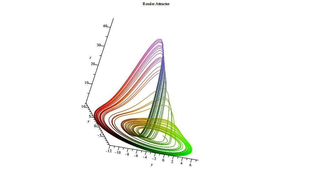 Maple plot of Rossler Attractor